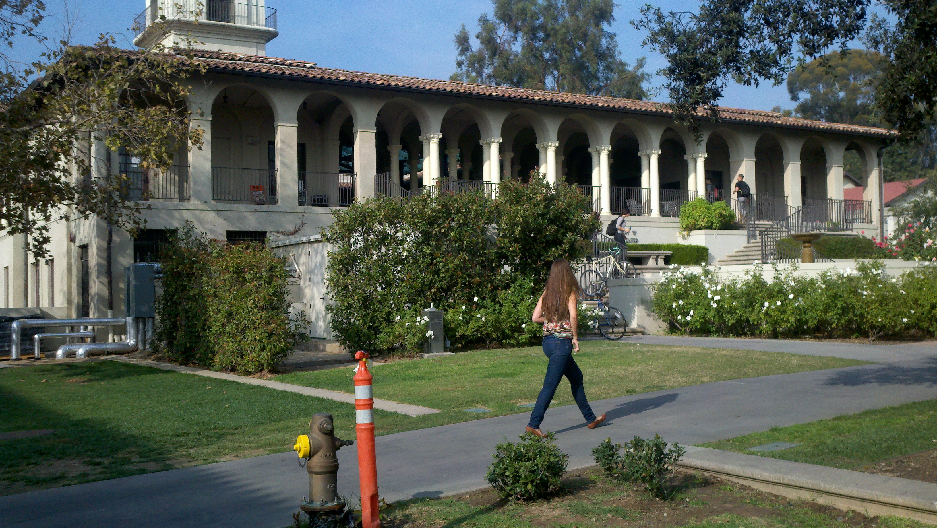 Johnson Student Center at Occidental College in Los Angeles, CA